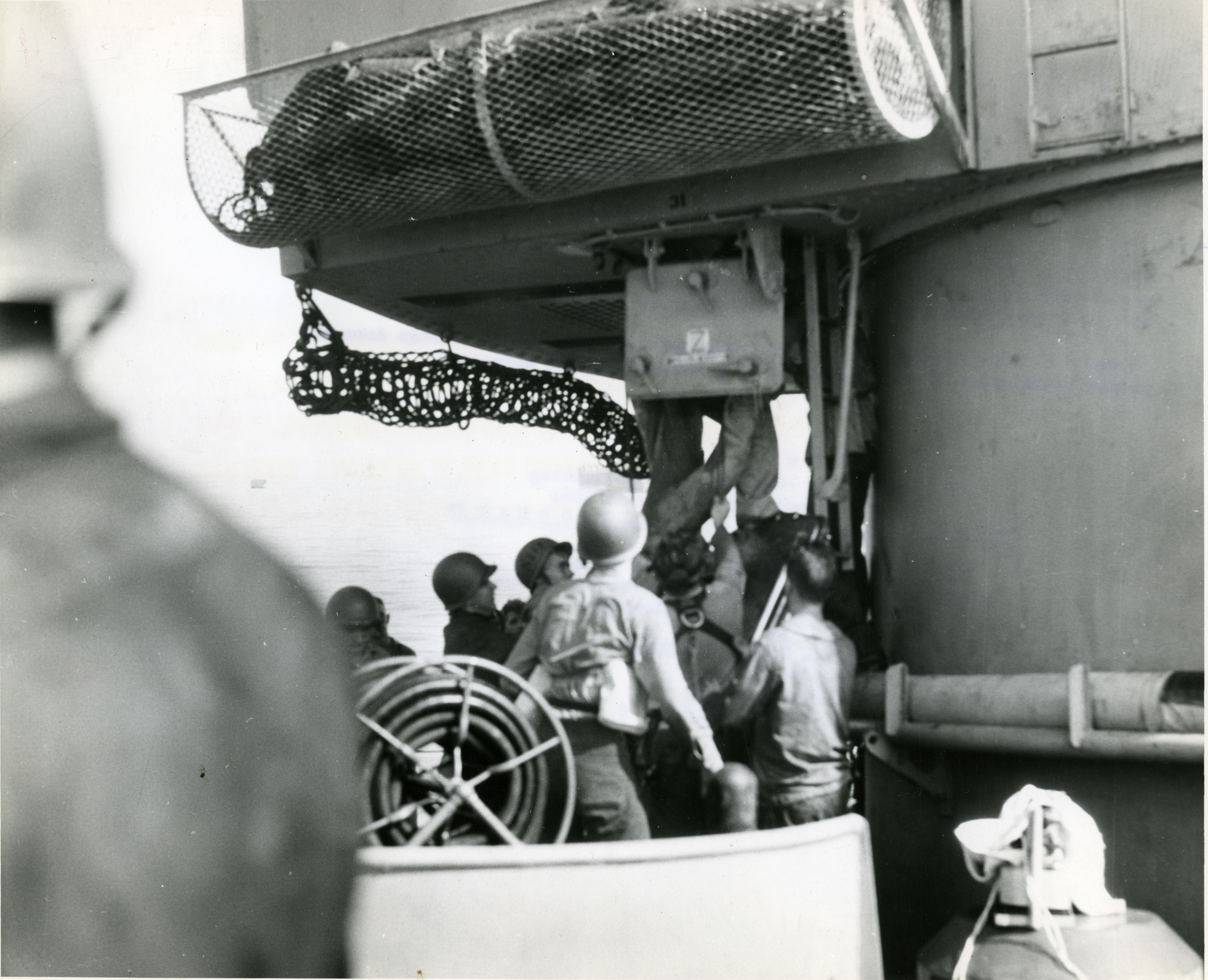 Struck by a German bomb on September 11, 1943, the cruiser USS Savannah rescued casualties, brought a fire under control, and continued to bring fire upon the enemy's shore installation during the battle for Salerno. Wounded brought through small hatch ---The door of a small hatch swings down to permit the wounded to be brought out of a turret by their shipmates.